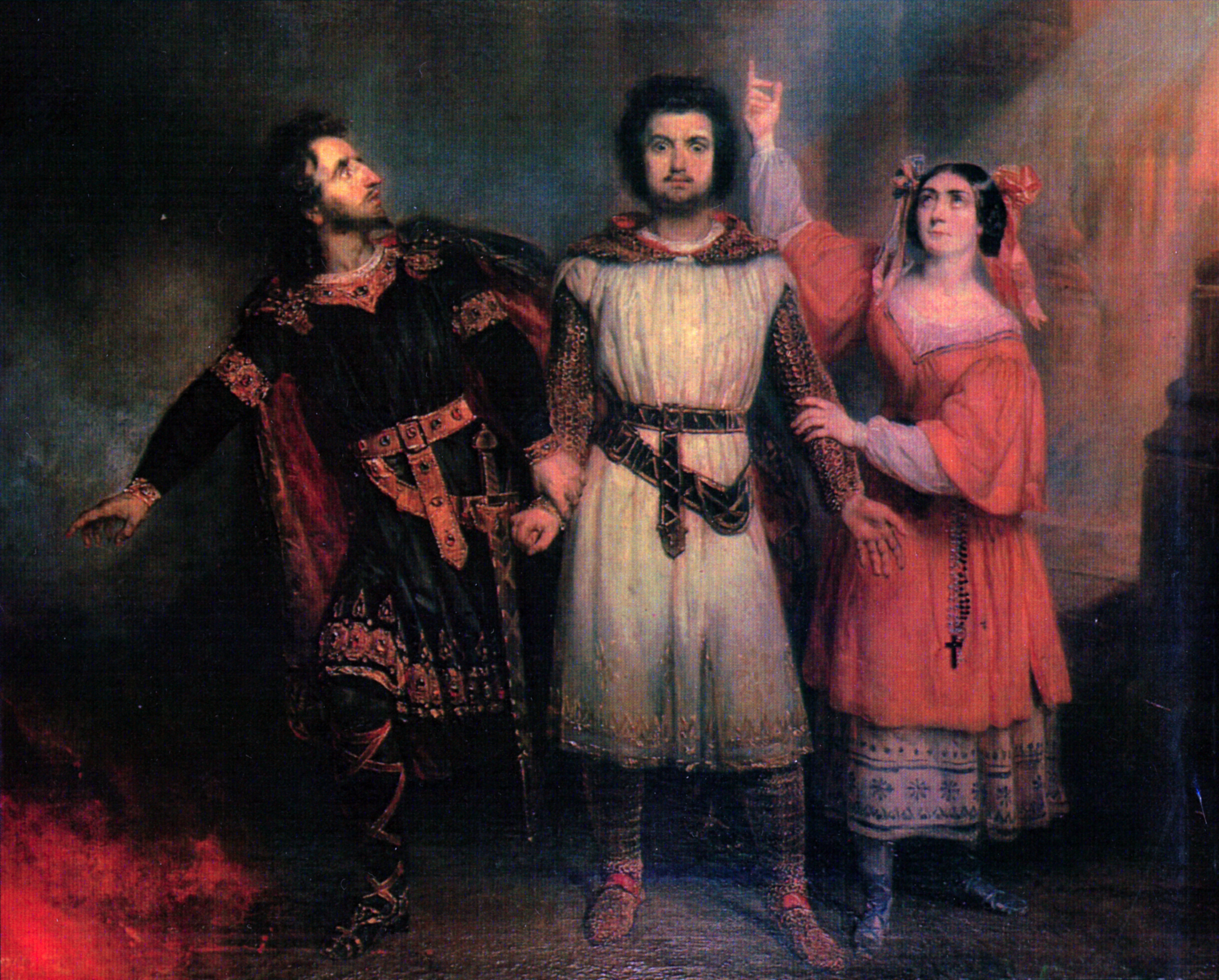 The trio in act 5 of Giacomo Meyerbeer's opera Robert le diable with (from left to right): Nicolas Levasseur as Bertram, Adolphe Nourrit as Robert, and Cornélie Falcon as Alice (78 x 94 cm, oil on canvas, Musée de l'Opéra)